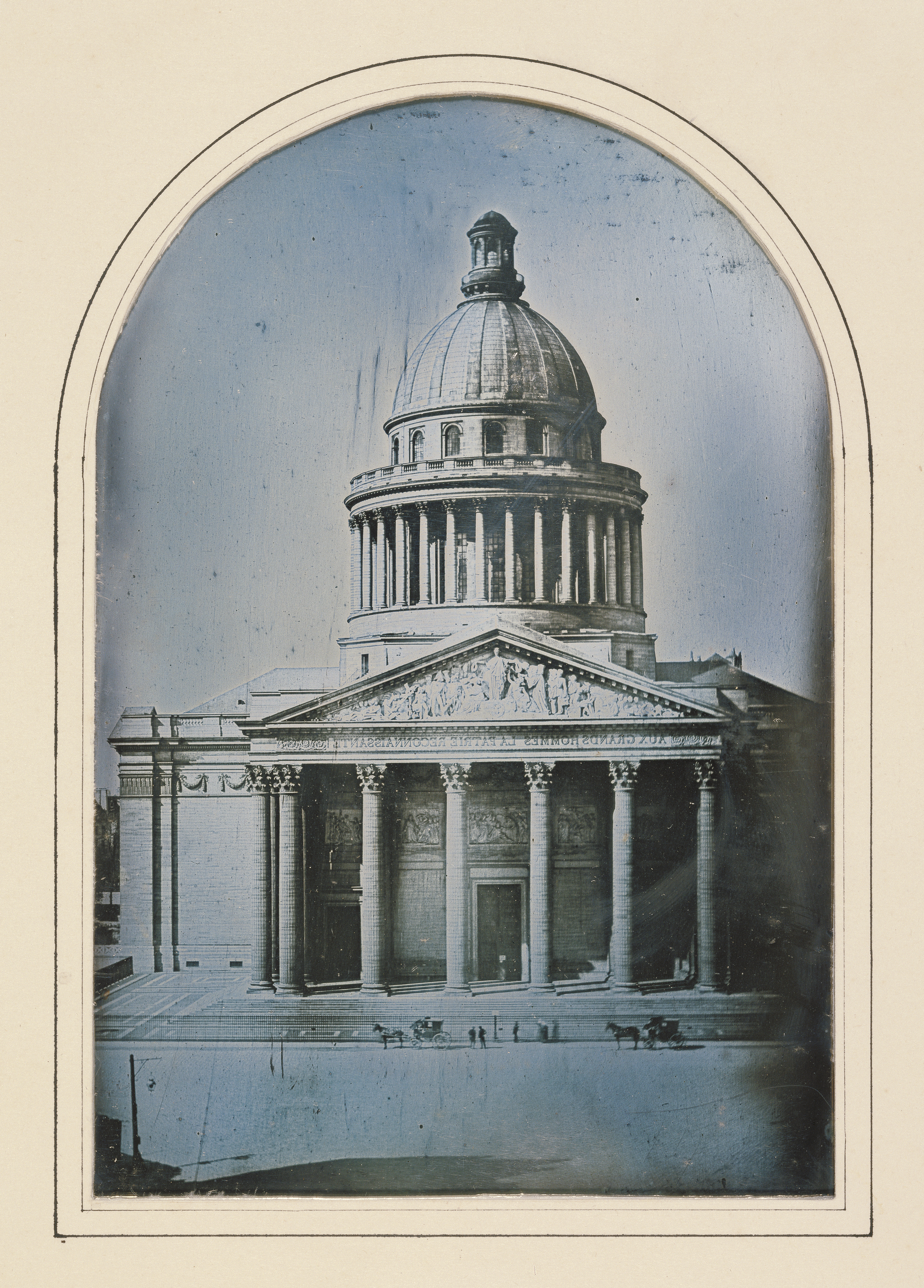 A group of visitors is frozen in time at the steps of the Pantheon, a famous Neoclassical building in Paris. Barely visible horses, carriages, and sightseers give an awe-inspiring sense of scale to the scene. Louis-Alphonse Poitevin observed the enormous edifice – 72 feet high and 276 feet wide – from the roof of one of the buildings that faced it. Begun in 1757 as the Church of Sainte-Geneviève, the Pantheon is now a civic building housing the remains of some of France's most famous citizens.